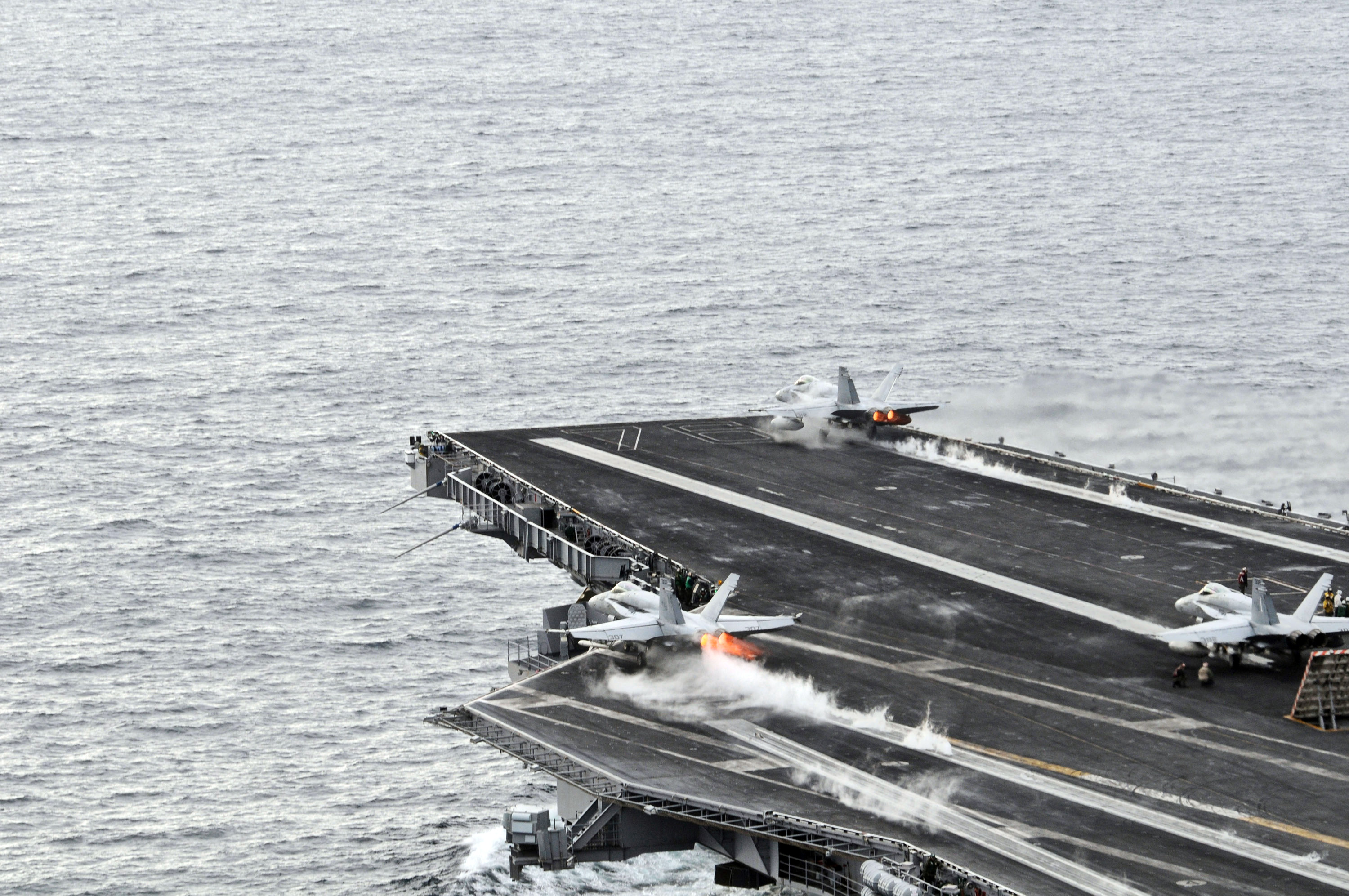 PACIFIC OCEAN (Nov. 24, 2008) F/A-18C Hornets assigned to the "Stingers" of Strike Fighter Squadron (VFA) 113 launch from the Nimitz-class aircraft carrier USS Ronald Reagan (CVN 76). All fixed winged aircraft assigned to Carrier Air Wing (CVW) 14 departed Ronald Reagan to return to homeport after a six-month deployment, aiding in Operation Enduring Freedom, an operation which gave support to ground troops in Afghanistan. (U.S. Navy photo by Mass Communication Specialist 2nd Class Joseph M. Buliavac/Released)